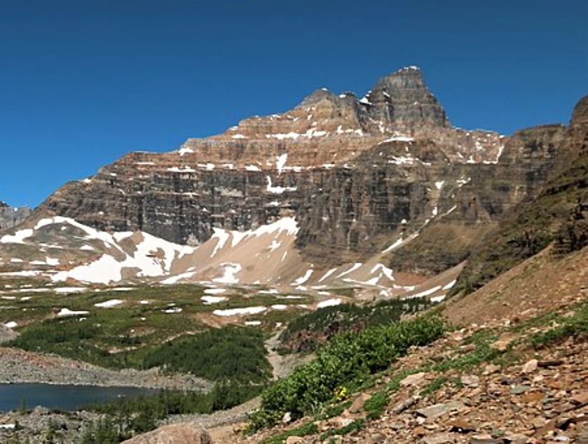 Wenkchemna Peak seen from Eiffel Lake